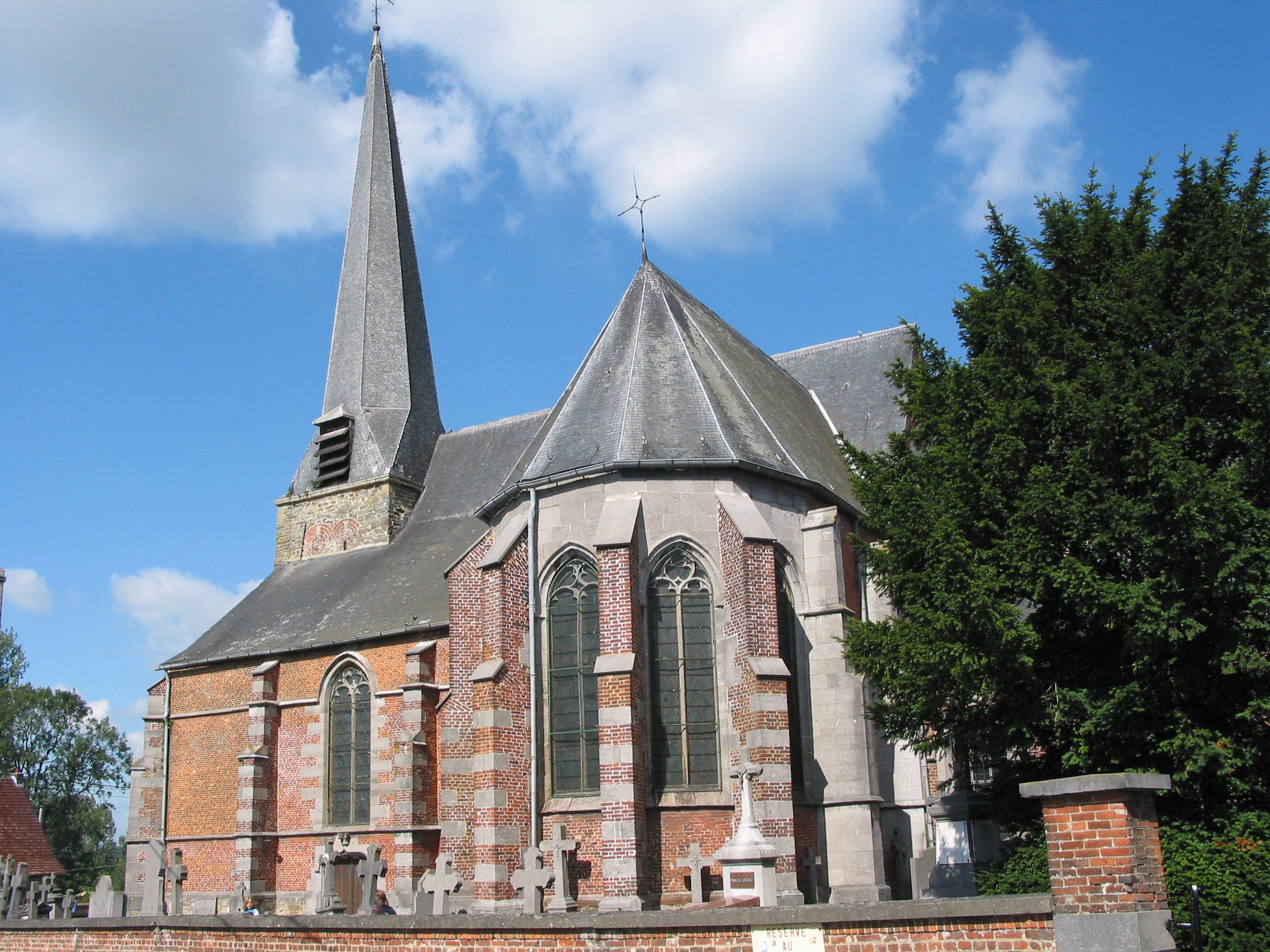 Marcq (Enghien) (Belgium), the St. Martin church (XII/XVIIth century).